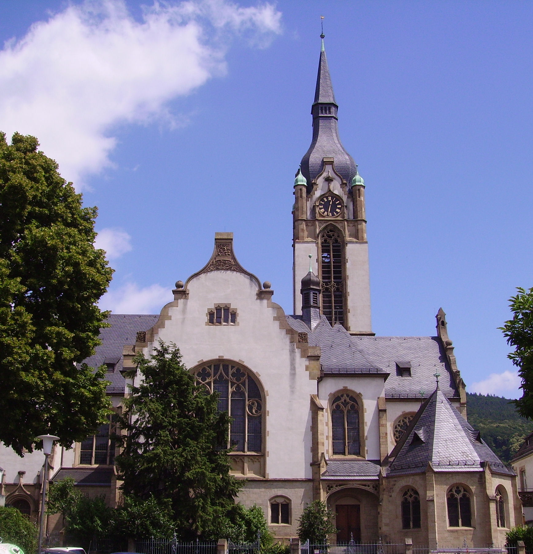 Heidelberg-Handschuhsheim, Germany